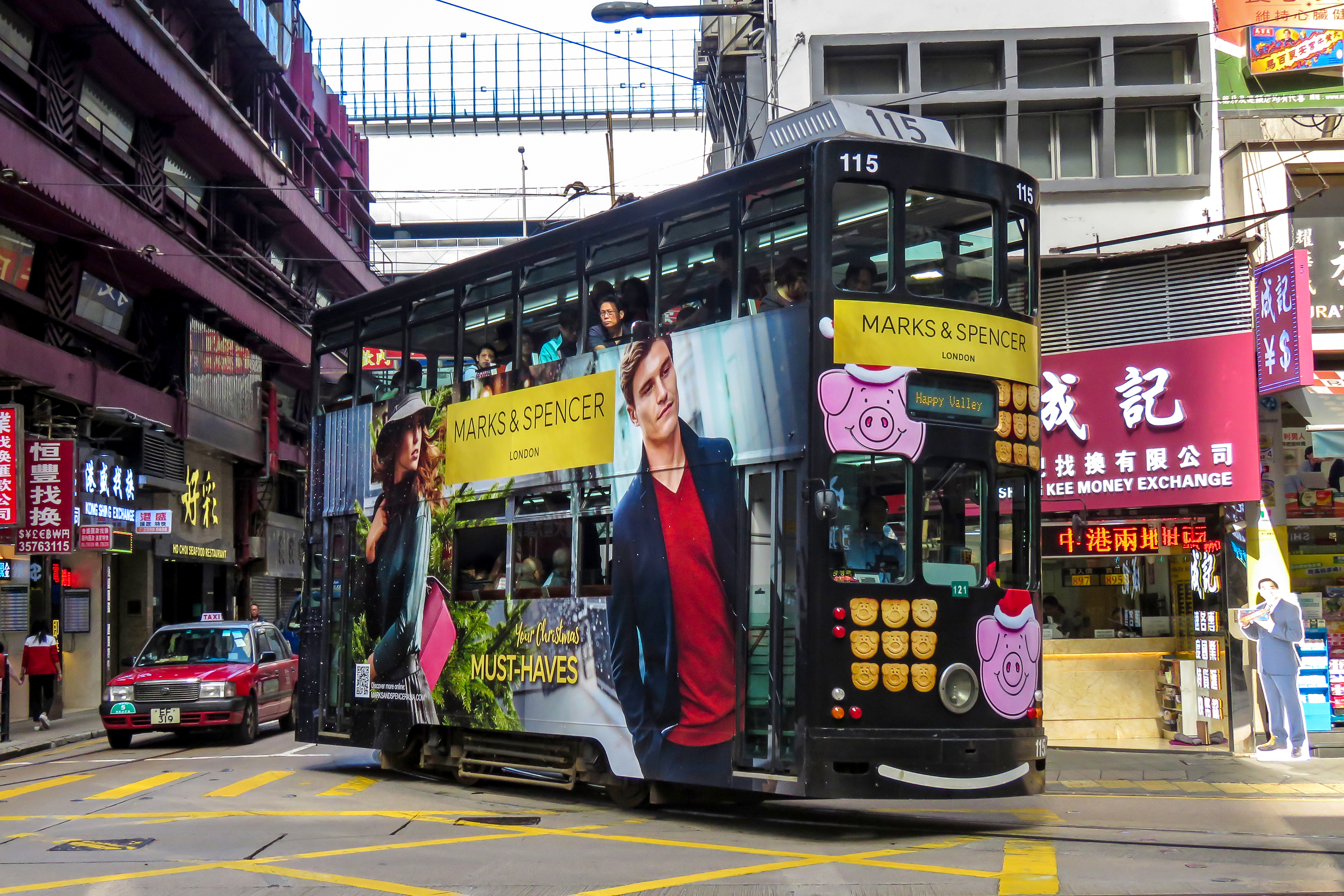 Hey 115, you've got a new coat for Christmas "must-haves"? Marks & Spencer even drew some pigs on the front, partly due to the coming "Year of the Pig" (2019).